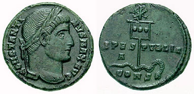 Constantine I 307-337 AD. Æ Follis (2.97 gm). Struck 337 AD. Constantinople mint. CONSTANTI-NVS MAX AVG, laureate head right SPES PVBLICA across field, labarum, with three medallions on drapery and crowned by a christogram, spearing serpent. CONS in exergue. RIC VII 19. According to RIC, this famous reverse type represents the defeat of tyranny by the death of Licinius. Yet, the scene also has powerful Christian imagery in that it allegorically portrays the power of Christianity over evil. Coin from CNG coins, through Wildwinds. Used with permission. Follis 337 Constantine